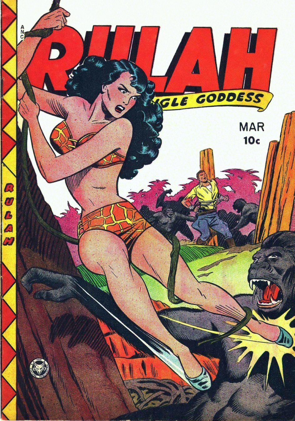 Cover from Rulah #24